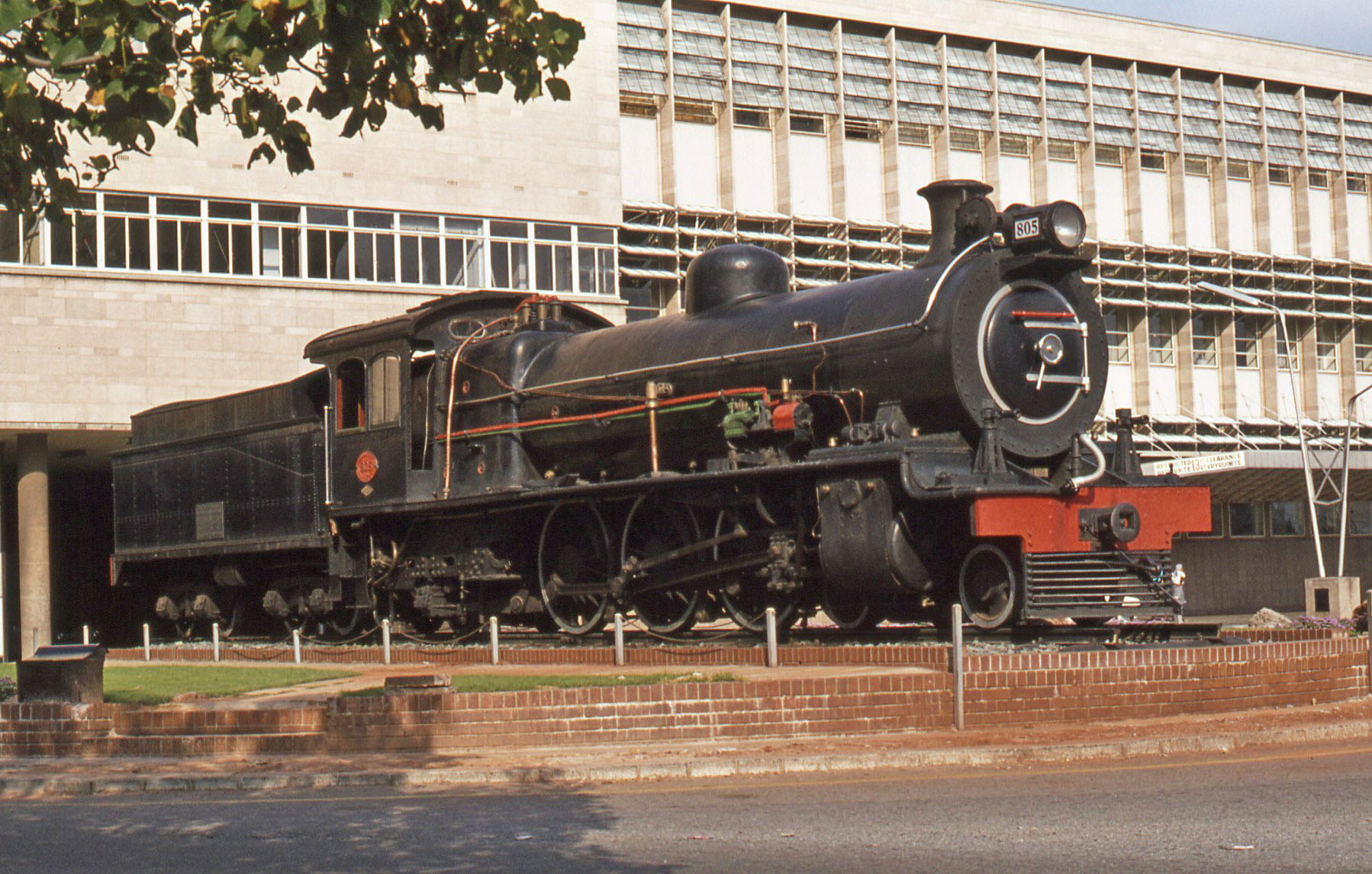 SAR Class 16B 805 (4-6-2) Location: Johannesburg